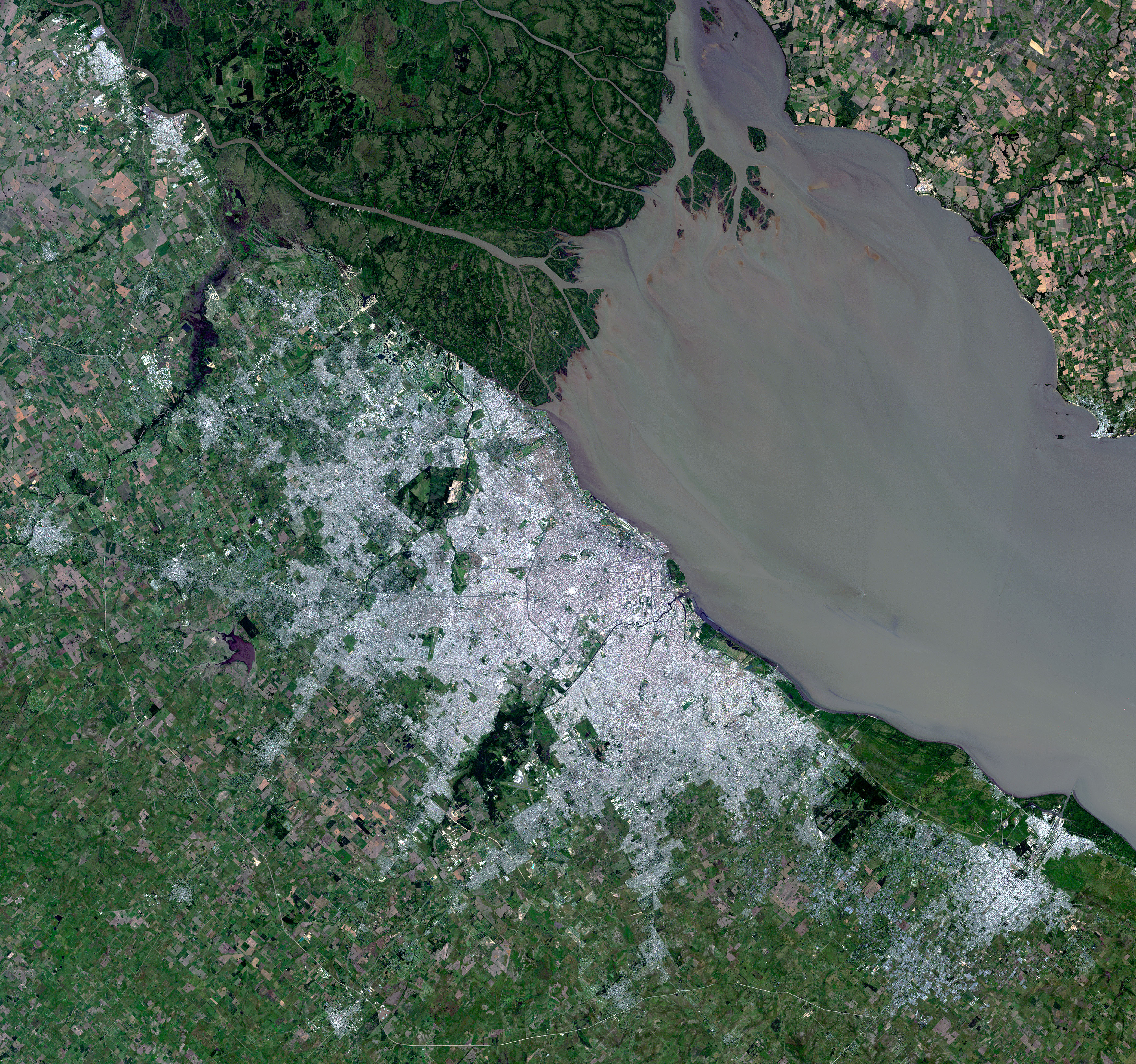 Satellite image of Buenos Aires, Argentina, taken by Landsat 8 on December 19, 2014. Bands 4, 3, and 2 were used.